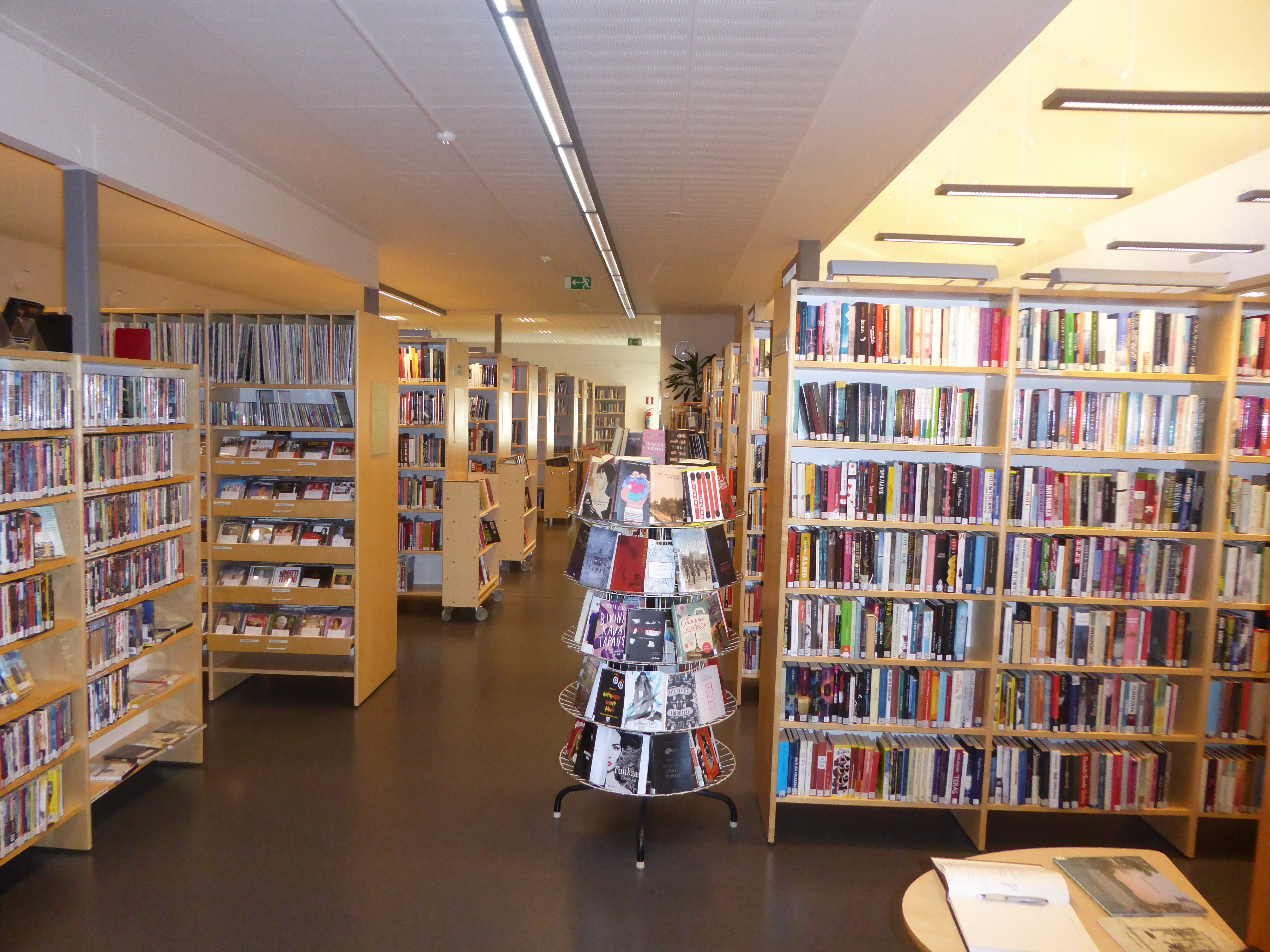 Ivalo library